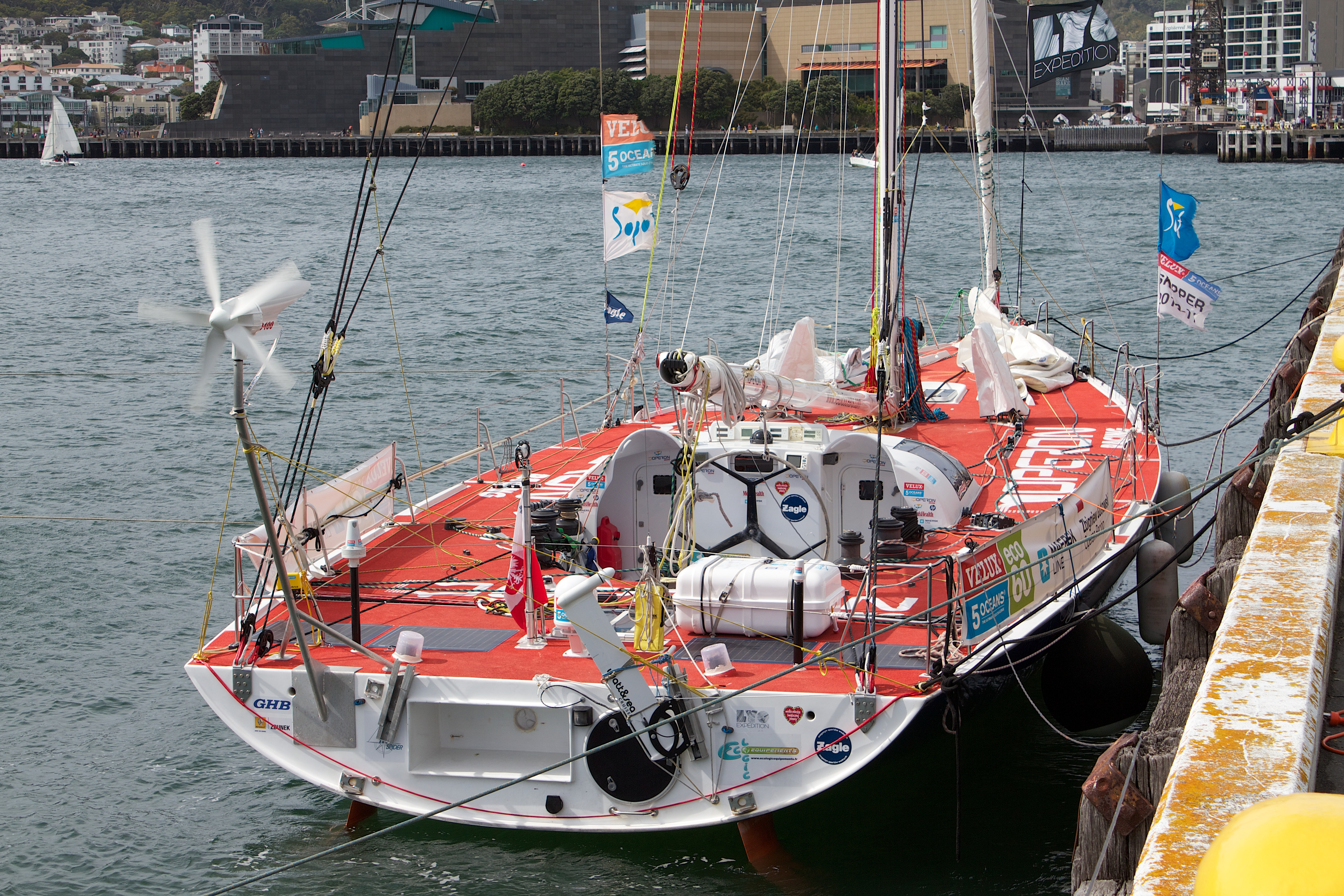 The Velux 5 Oceans race is a tough solo race of sailers around the world. After completing the 2nd ocean sprint from South Africa to New Zealand, the skippers rest in Wellington until Waitangi Day when they commence the 3rd sprint to South America. The two longest sprints are already behind them: La Rochelle to Cape Town (7,500 Nautic Miles) and Cape Town to Wellington (7,000 Nautic Miles).